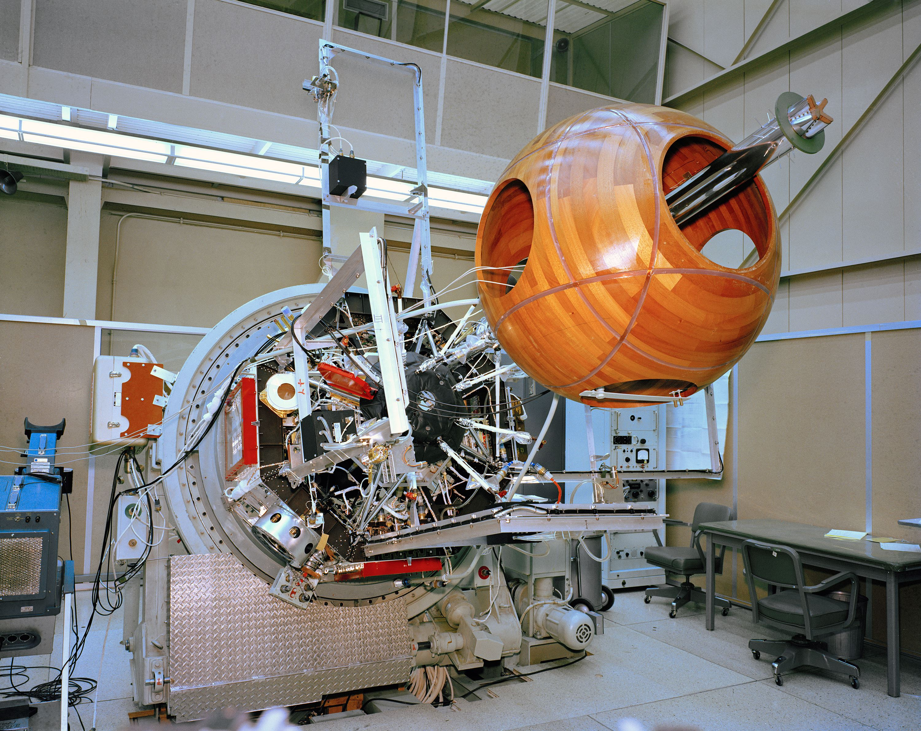 Several spacecraft were built for the Mariner Mars 1964 mission. The ones that were actually launched were referred to as Mariner C-2 and Mariner C-3 until they were renamed Mariner 3 and Mariner 4, respectively. There was also a Proof Test Model (PTM, or Mariner C-1) and a Structural Test Model (STM). This photo shows Mariner C-2 configured for system tests in May 1964. It appears to be in the Spacecraft Assembly Facility, with the observation area at the top of the photo. (mai 1964)